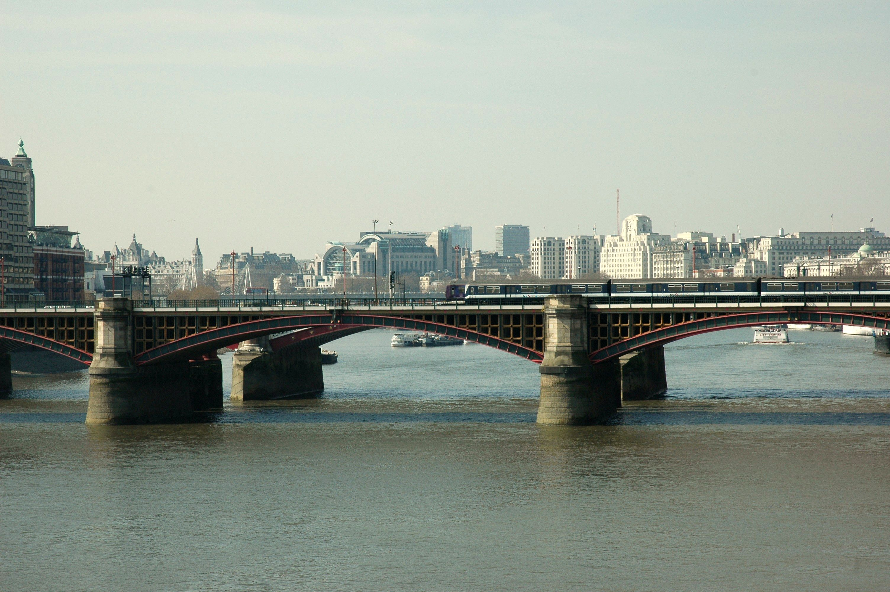 Londres - Pont de Blackfriars Railway